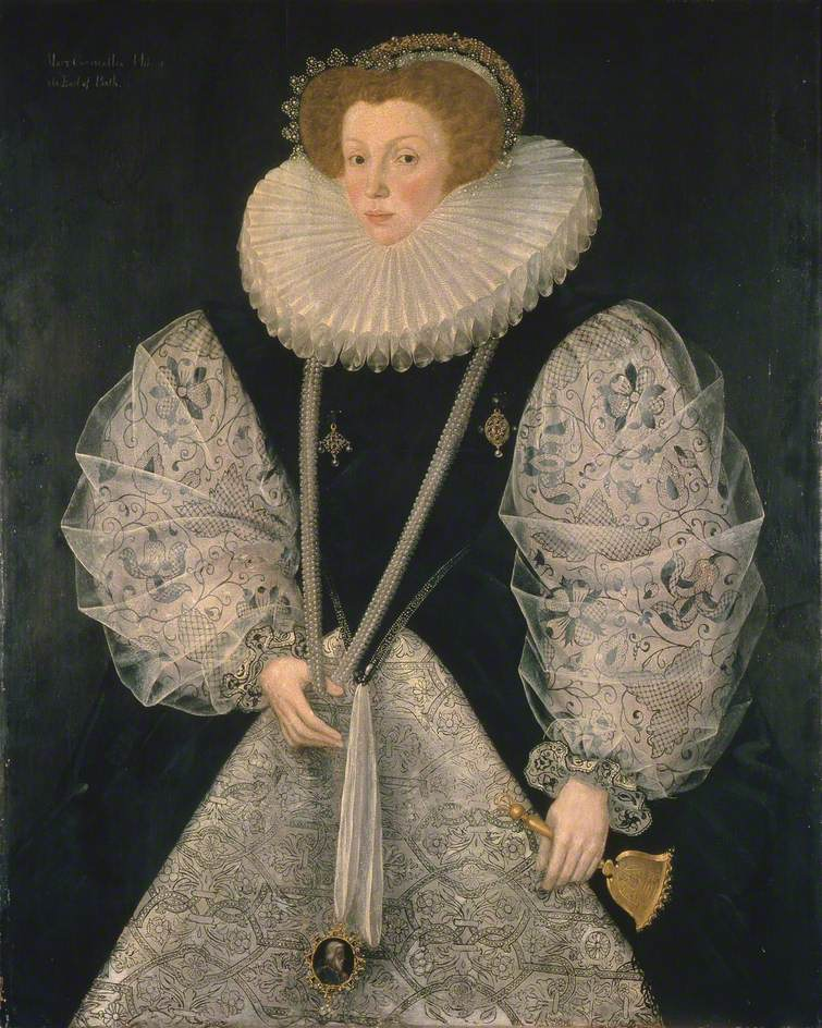 Countess of Bath, aka Mary Cornwallis, by George Gower (c.1540–1596), Manchester City Art Gallery, c.1580–1585, Oil on panel, c. 50 x 40 inches. Other information Countess of Bath, aka Mary Cornwallis, by George Gower, Manchester City Art Gallery, c. 1580–1585, Oil on panel, c. 50 x 40 inches.jpg